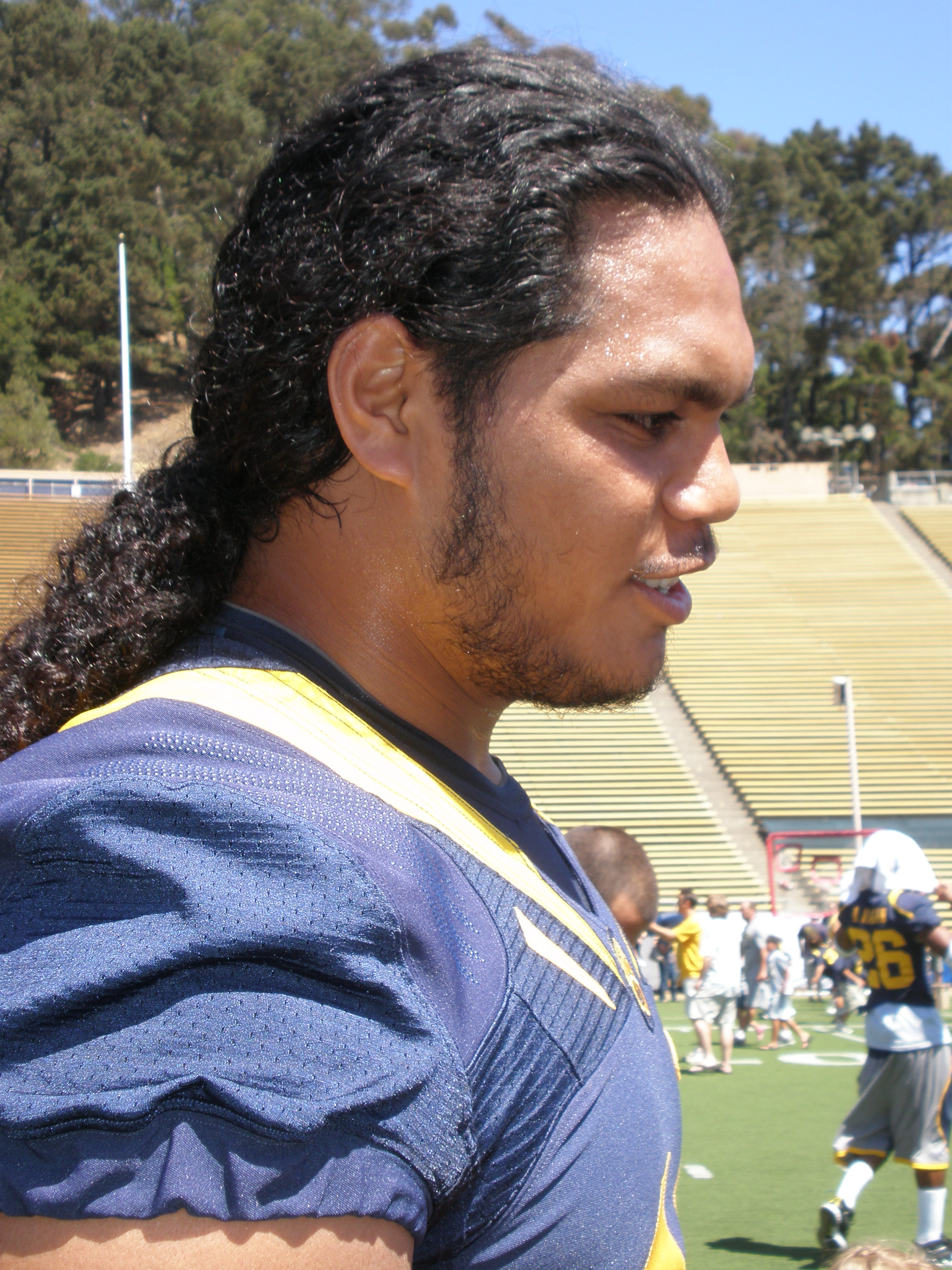 Cal defensive tackle Tyson Alualu at the 2009 Cal Fan Appreciation Day at Memorial Stadium in Berkeley, California.